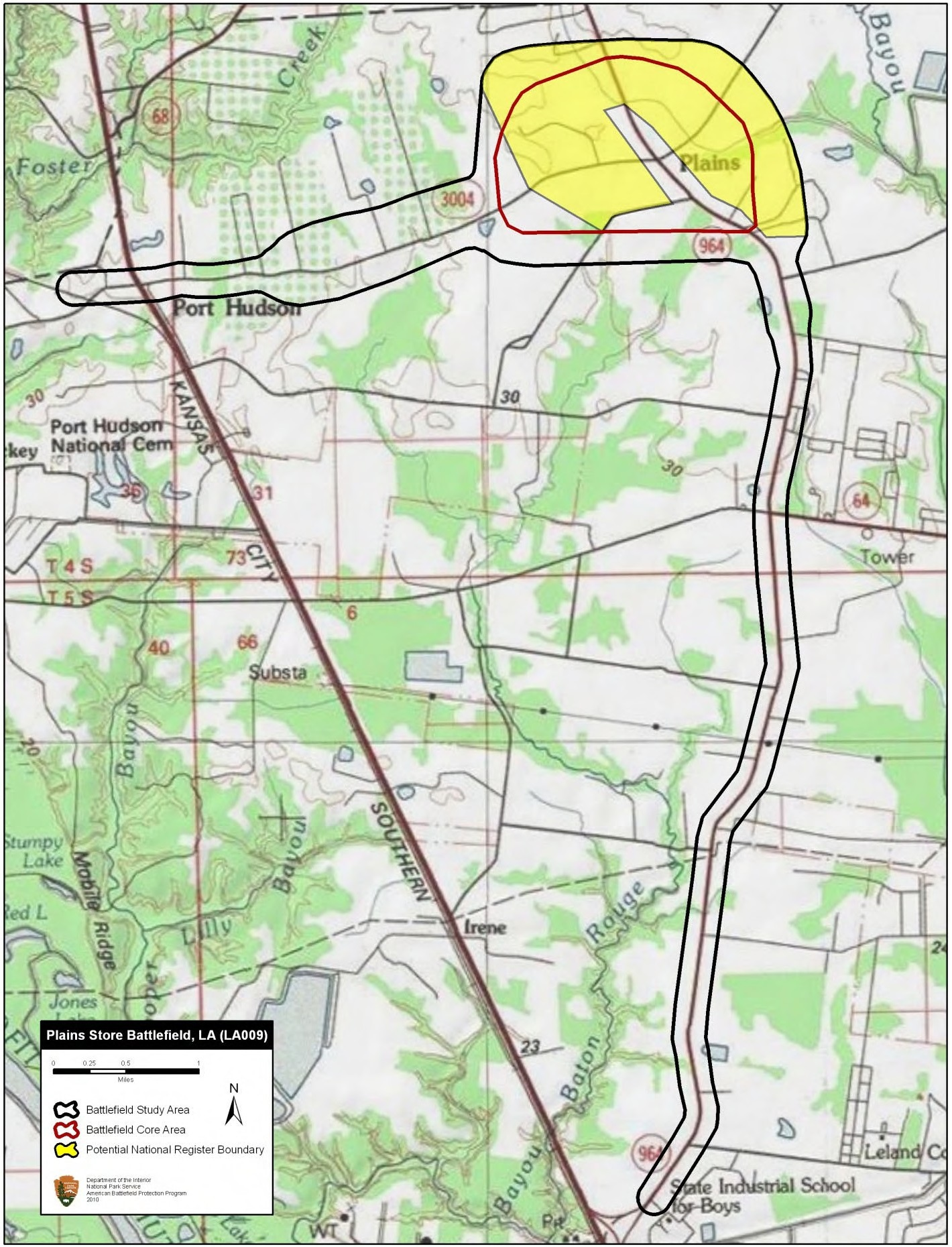 Map of battlefield core and study areas. The Study Area was revised to include the Federal route of advance from the south. MG Augur had headed north intending to secure a landing on the Mississippi River, but was intercepted by the Confederates at Plains Store. The advance/withdrawal route from Port Hudson of the Confederate reinforcements under Col. Miles was extended to the west. The Core Area was revised to more accurately reflect the primary area of fighting.